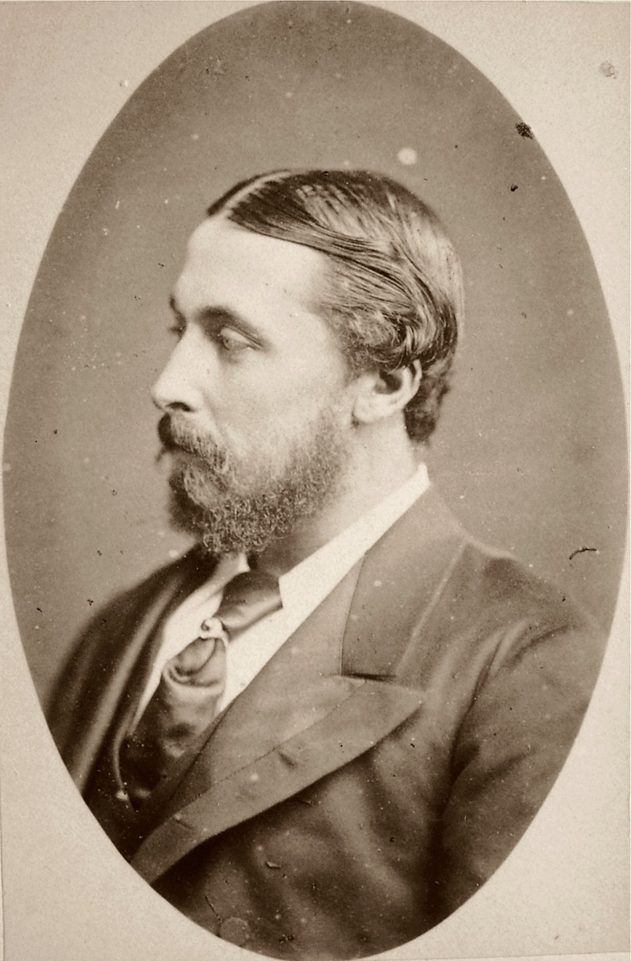 Alfred, Duke of Saxe-Coburg and Gotha